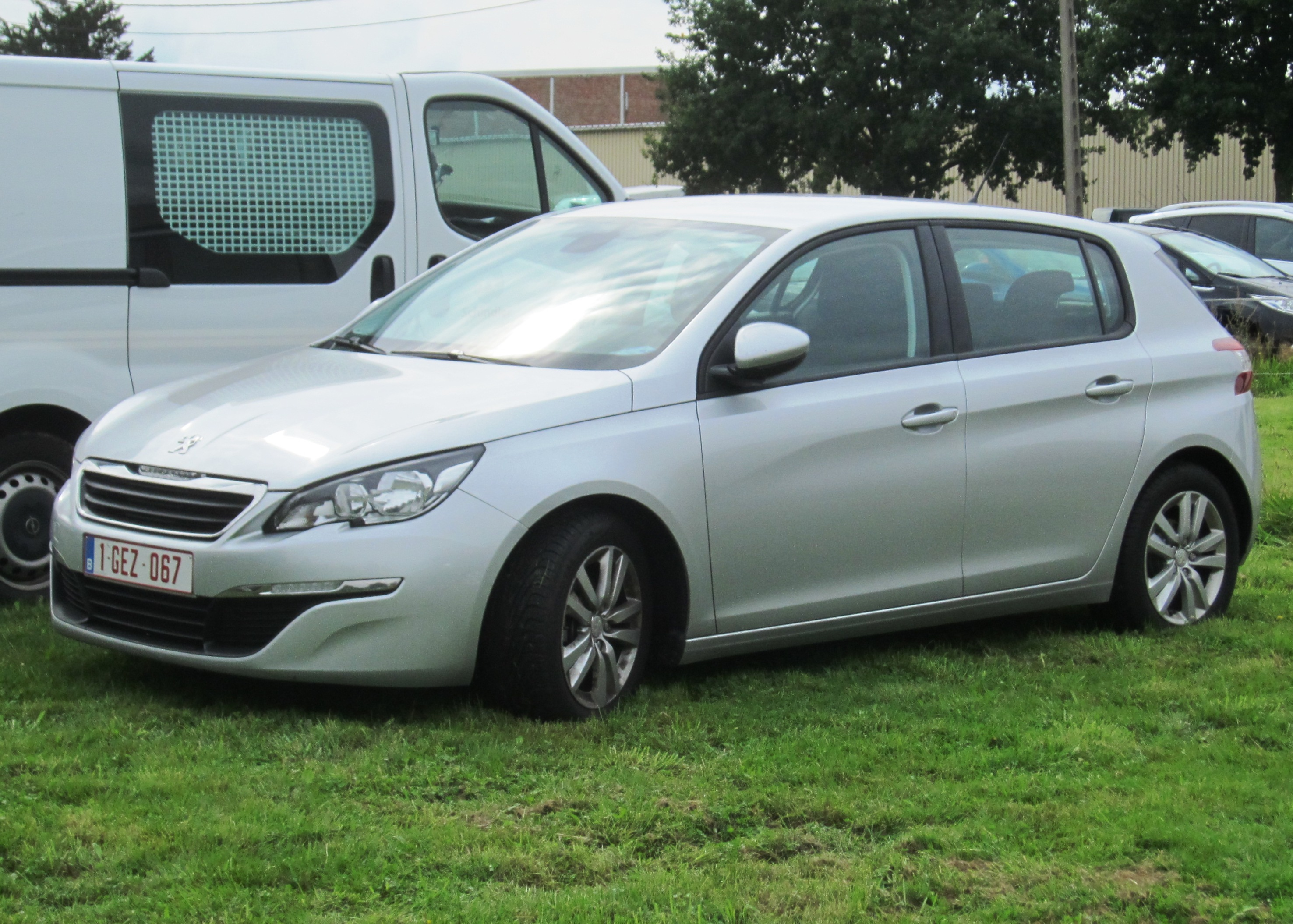 Peugeot 308 B out of doors